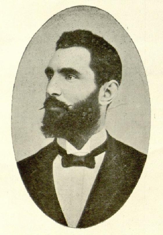 Portrait of the Italian mycologist and phytopatologist A. N. Berlese (1864-1903).